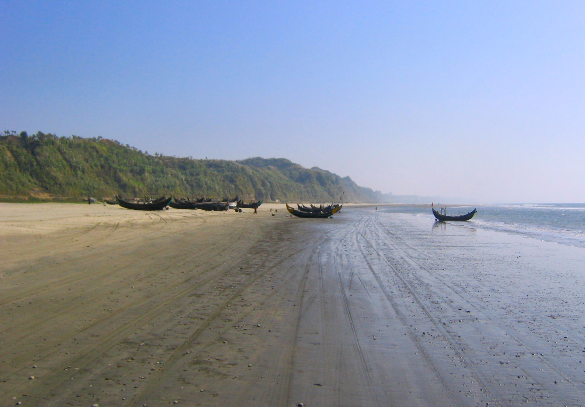 Date: 3rd January 2004 08:03 1 ISO: unknown Photograph: ed g2s • talk